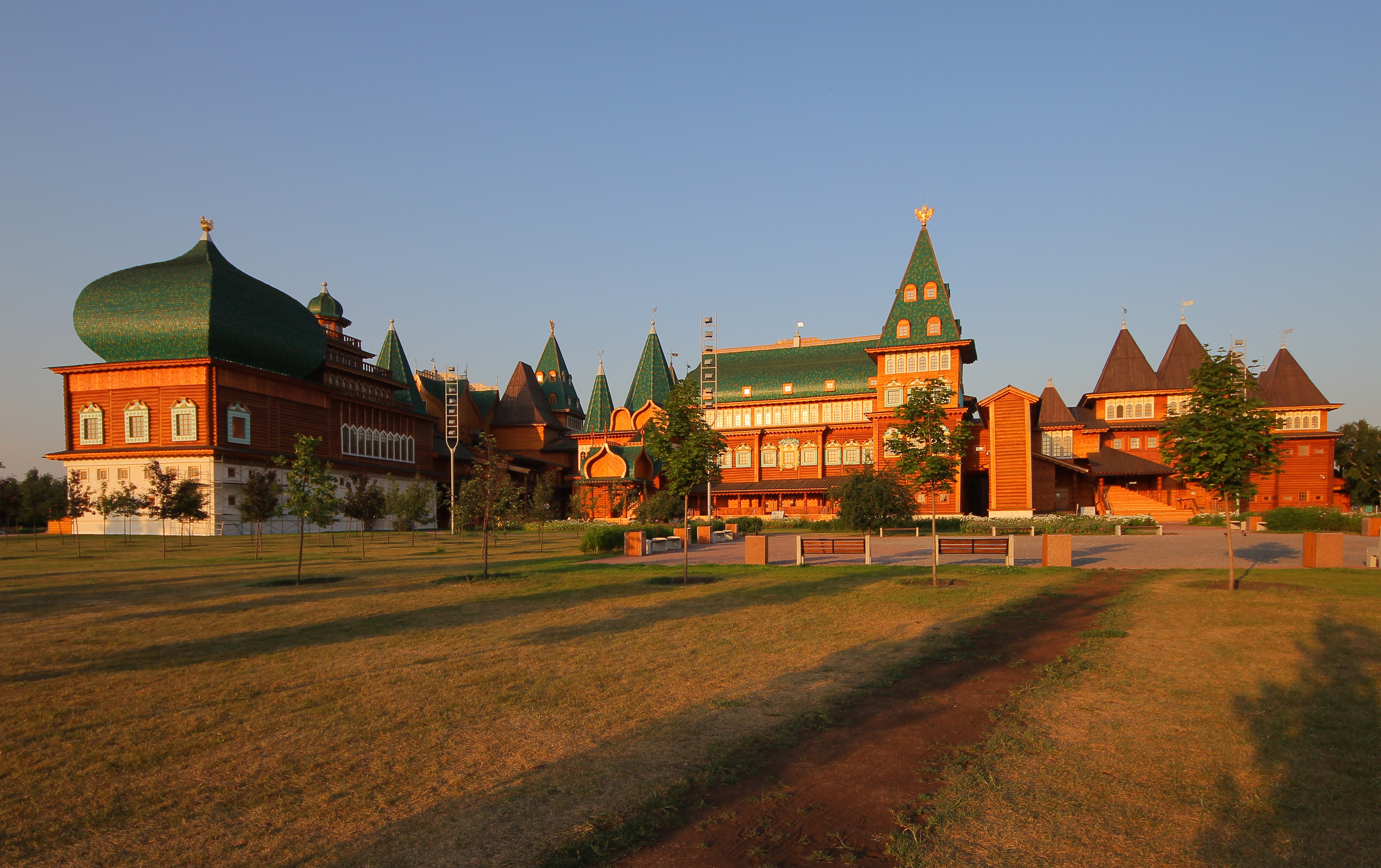 Kolomenskoe Museum, Moscow: Rebuilt wooden palace of Tsar Alexis of Russia